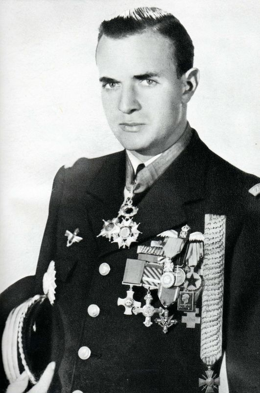 Original photograph taken by an employee of the British government. Image found on